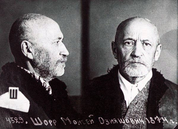 Moses Schorr (d. 1941), Jewish historian from Poland at themoment of his arrest by Soviet security forceNKVD.